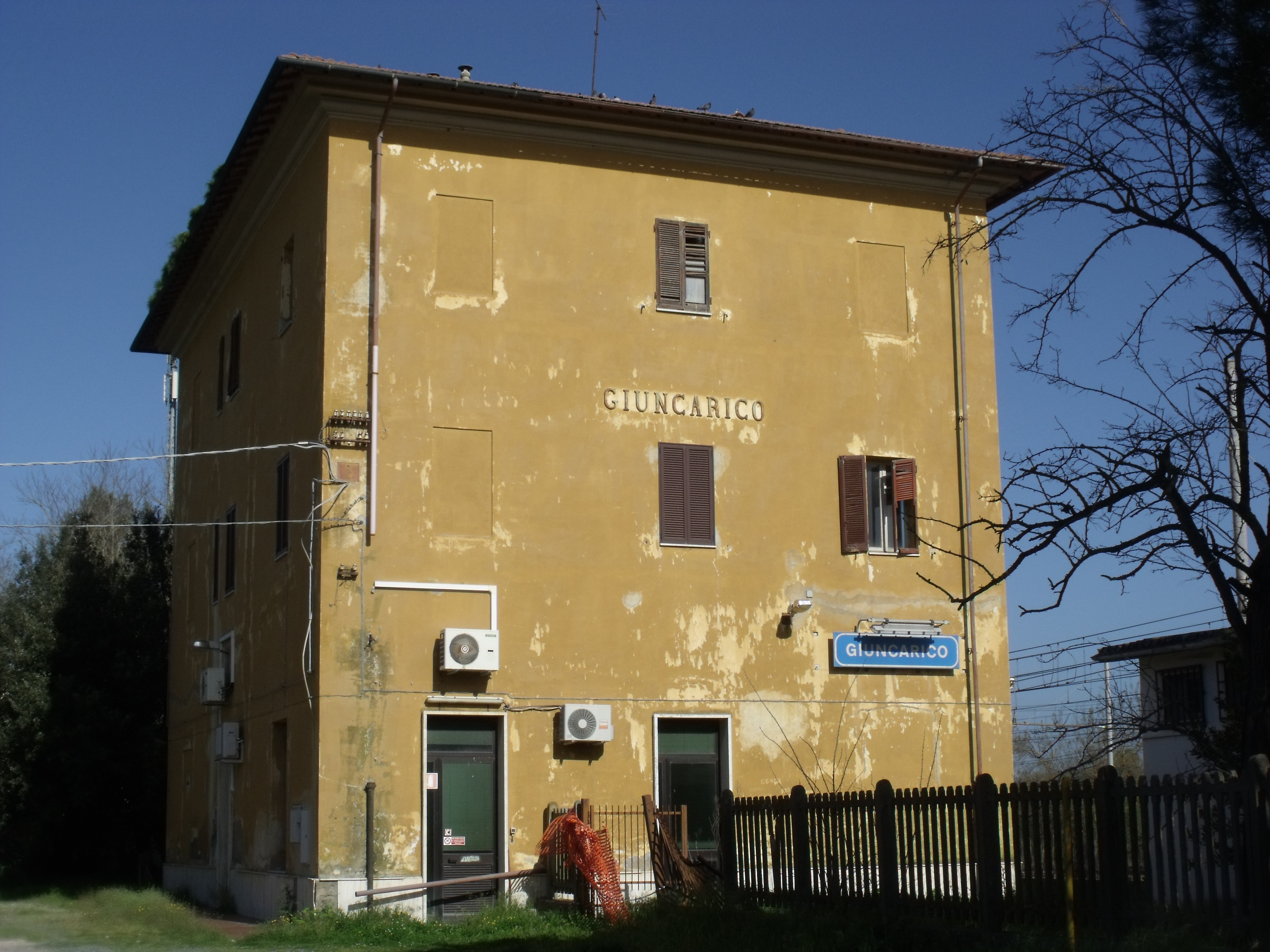 Church of Sant’Egidio in Giuncarico, hamlet of Gavorrano, Maremma, Province of Grosseto, Tuscany, Italy